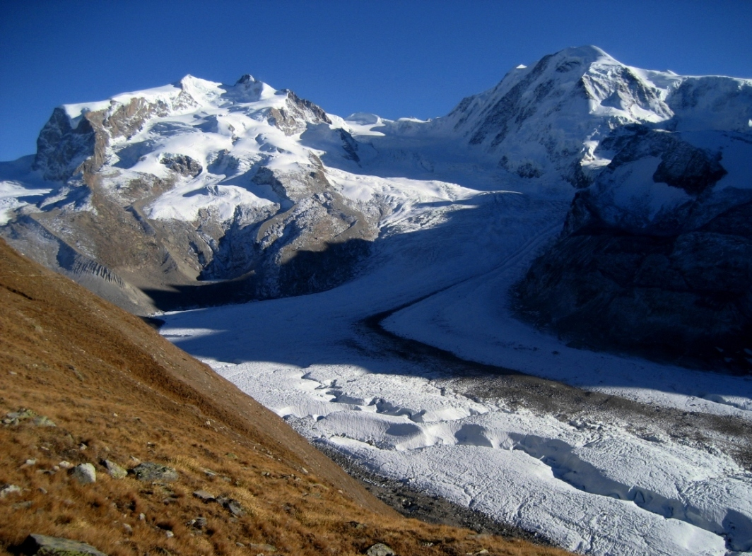 A view of Gorner Glacier in front, the Monte Rosa massif in the middle, and the major tributary of the Gorner Glacier, the Border Glacier (de: Grenzgletscher) and the impressive Liskamm to its right on the Swiss-Italian border, as viewed from Gornergrat